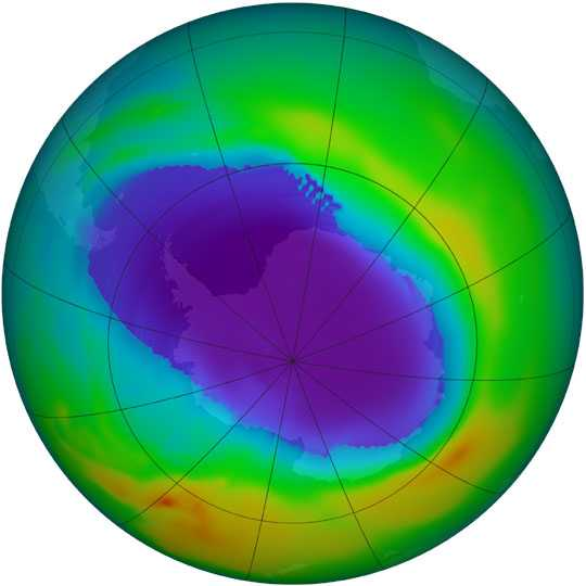 In 2004, the maximum ozone hole occurred on September 22, 2004